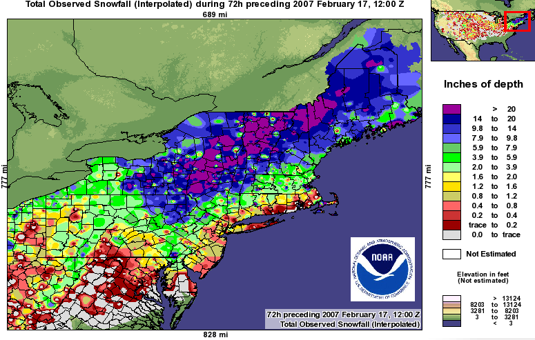 February 2007 North America Winter Storm, otherwise referred to as the Valentine's Day Blizzard, snowfall accumulation map.